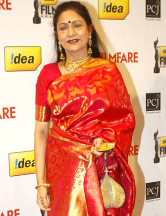 Aruna Irani an Indian Film and television actress at 57th Idea Filmfare Awards